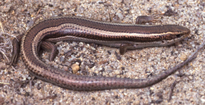 Public domain. Photo by Chris Brown, U.S. Geological Survey. Source: [1].